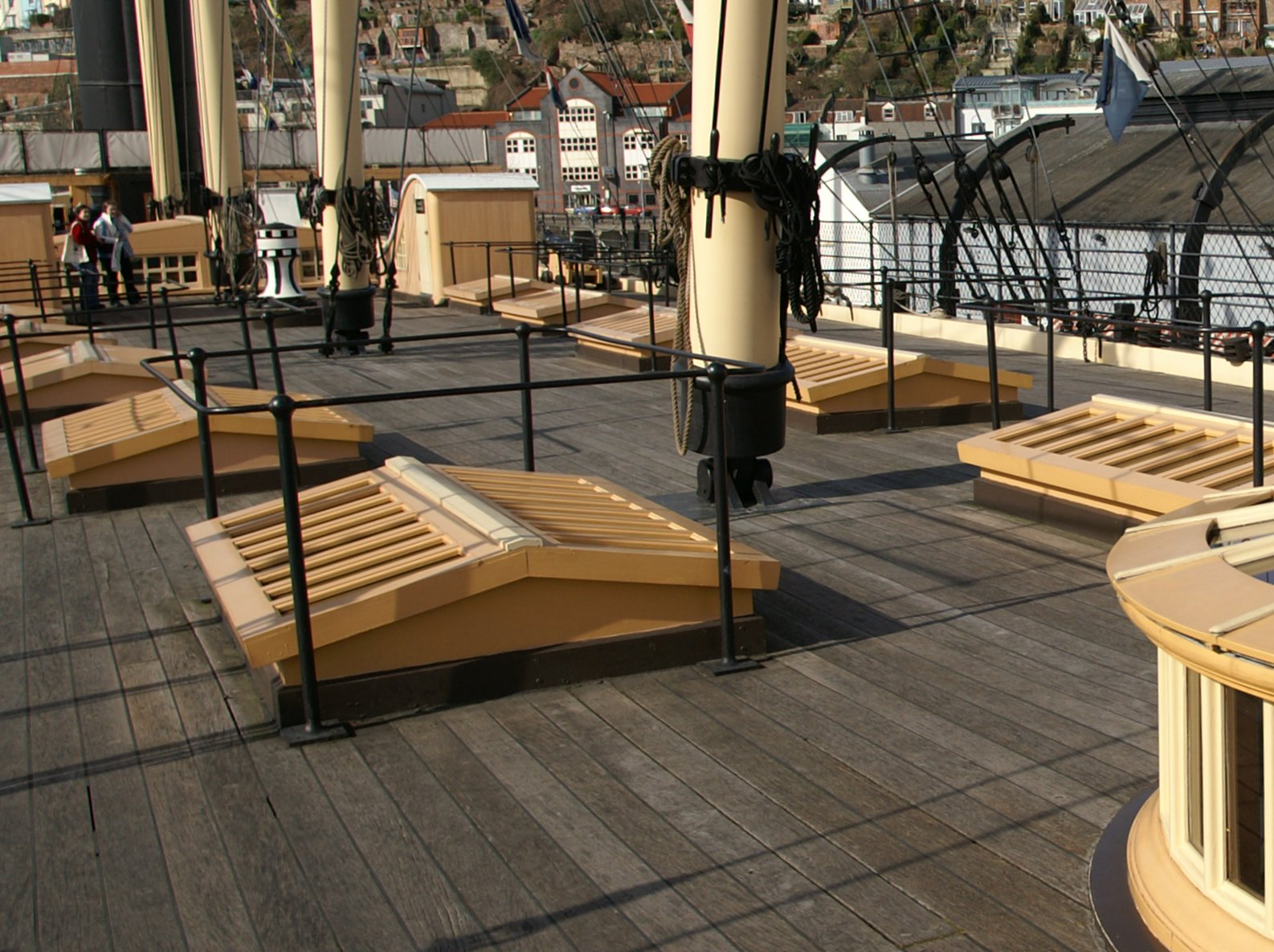 hatches and mast on deck of SS Great Britain, Bristol